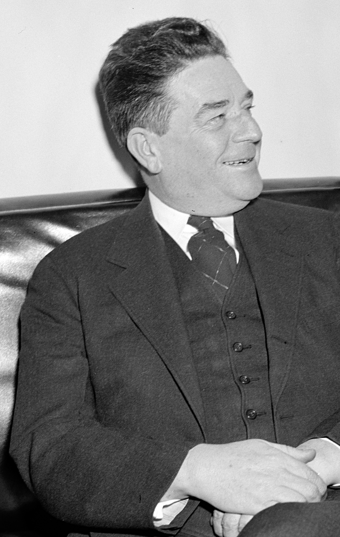 Lindsay Carter Warren, US Representative from North Carolina